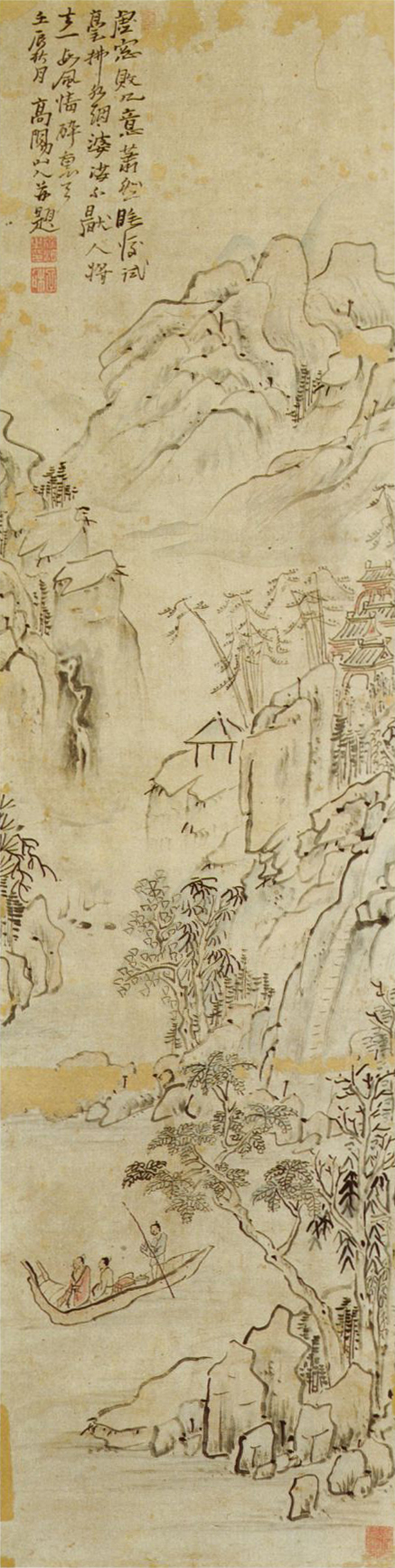 Enjoy boating in valley;hanging scroll,ink colors on paper 渓山清興図